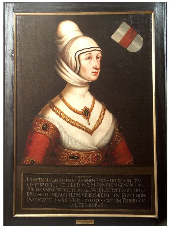 Margaret of Austria, Electress of Saxony (1424-1486)